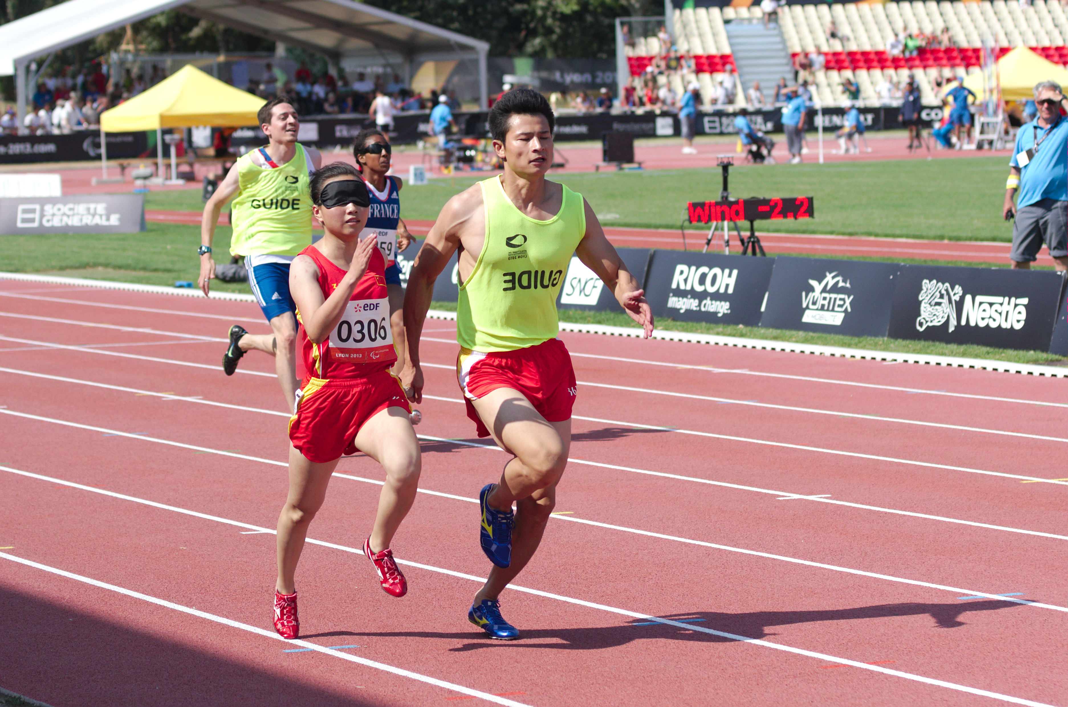 Juntingxian Jia and Donglin Xu of China during the Women's 200m - T11 first semifinal. Behind, in bib 459, is France's Elvina Vidot and her guide Loic Scouarnec.